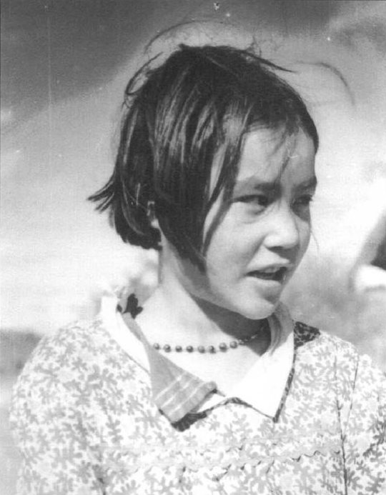 Kaska girl: Kaska children who for several generations in Canada, like other indigenous peoples in other parts of the world, have been forced to attend school (in "Indian residential schools" in this case), far from their families and of their community and culture. Deborah Chansonneuve says that the urgent health and social problems facing many Aboriginal people in Canada today are directly related to this fact; these children were often abused in residential schools and in all cases disconnected from their families and communities (Chansonneuve, Deborah (2005) reclaiming Connections: Understanding Residential School Trauma among Aboriginal People. Aboriginal Healing Foundation, Ottawa voir p40).Deborah Chansonneuve adds that it is a place that teaches Aboriginal children to feel ashamed of their heritage, their language, their customs and their spiritual traditions (2005: 40). In her dissertation on Kaska Dene Farel also cites Marianne Hirsch's work on the post-holocaust memory, where she shows how memories of traumatic events can be transmitted to those who were not there (Hirsch, M. (2008). The generation of postmemory. Poetics today, 29(1), 103-128. voir 106-110). And we know today that long and severe trauma have consequences enepigenetic epigenetic that can last for several generations.